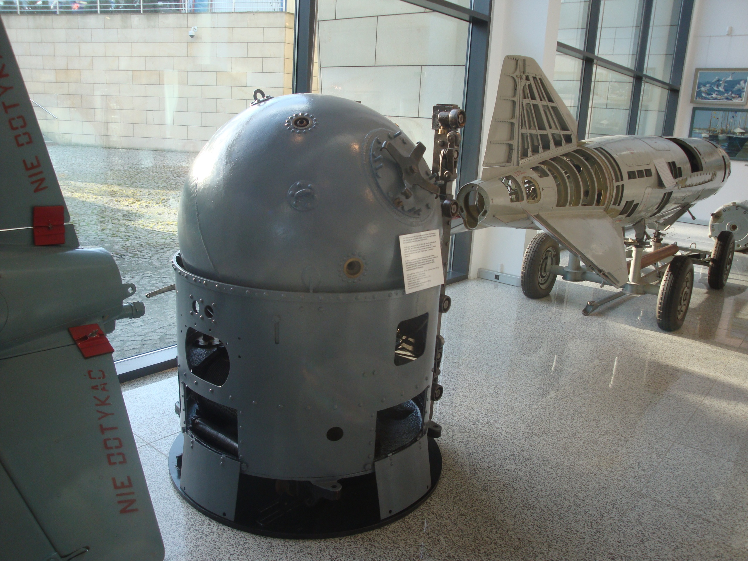 Naval Mine SM-5 in Museum of Polish Navy in Gdynia. Made in France, used in 1939 by polish submarines Wilk, Żbik and Ryś